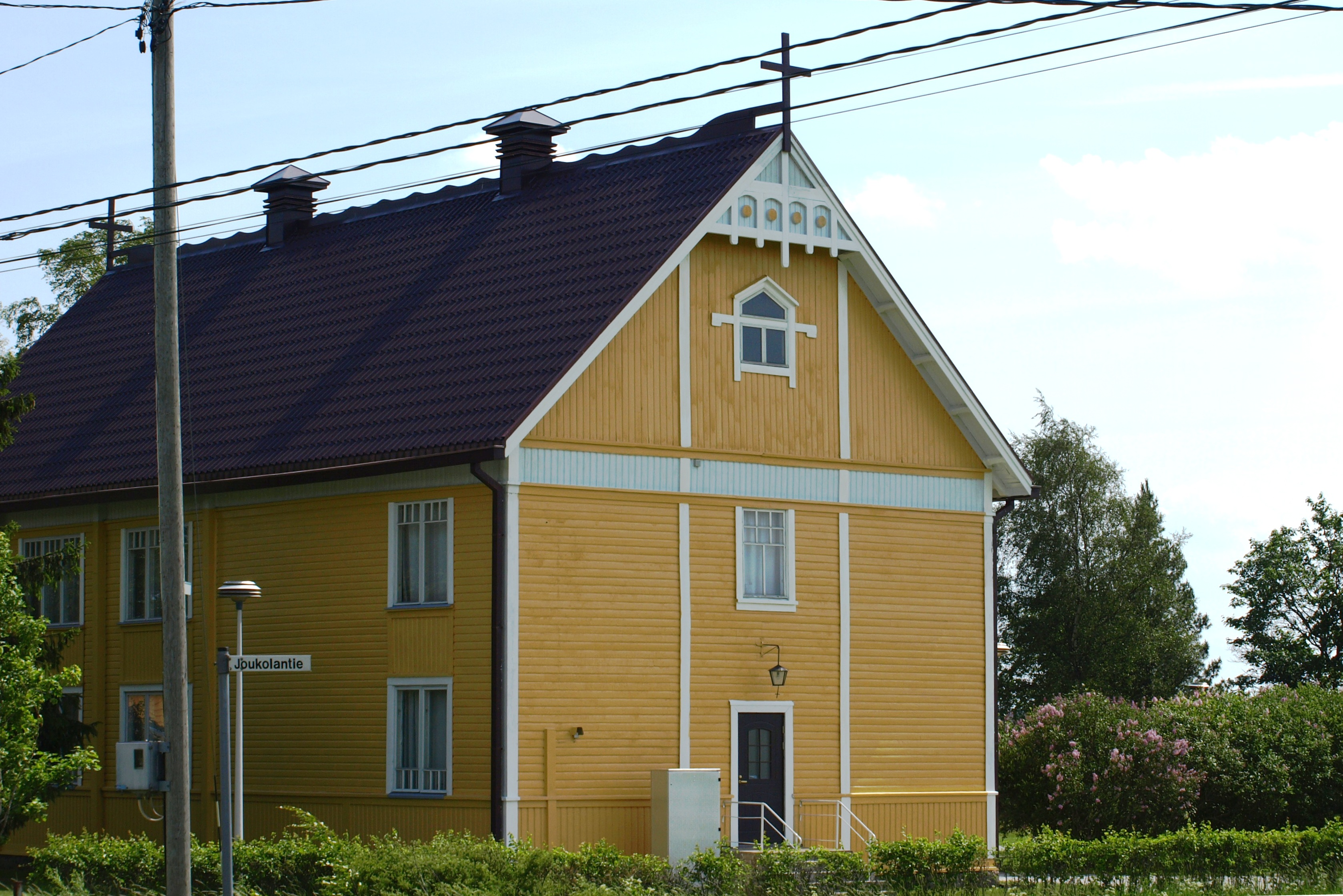 Wooden Vaskio Church in northern Halikko, Finland. It's been built in 1908.